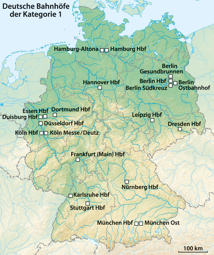 Map of Category 1 railway stations in Germany